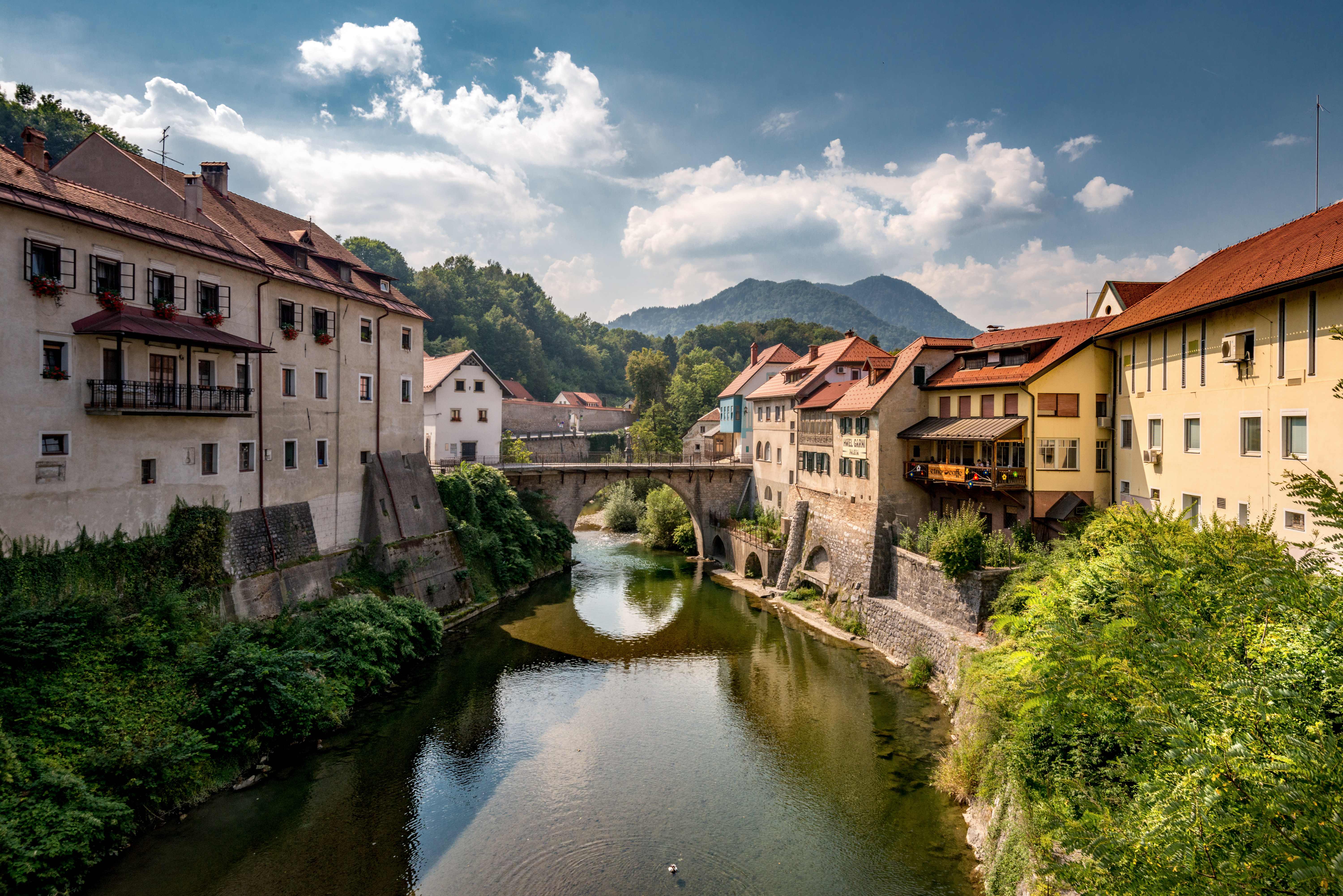 Škofja Loka is a historic town in Slovenia. The image shows the Selca Sora river and the Cappuchin Bridge, the oldest preserved Bridge in Slovenia (from the middle of the 14th century).